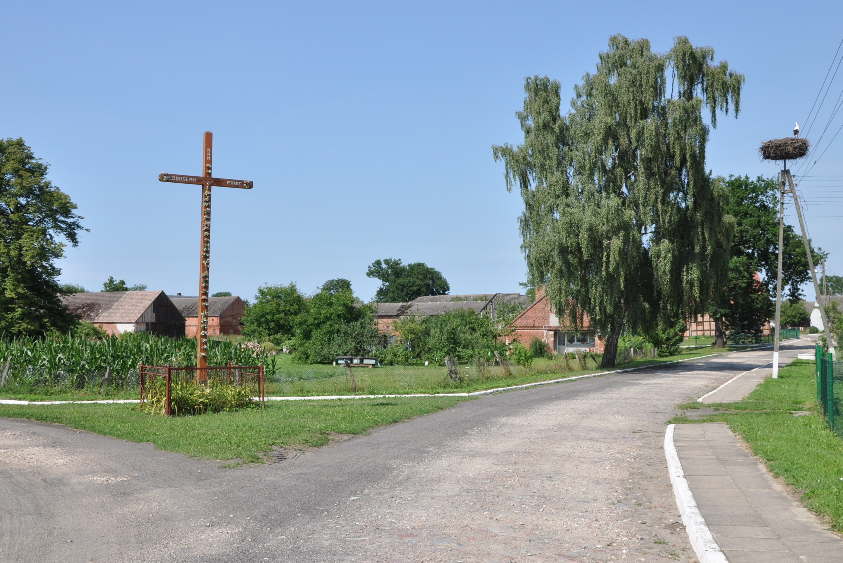 Triple cross-roads in Ciećmierz, Poland